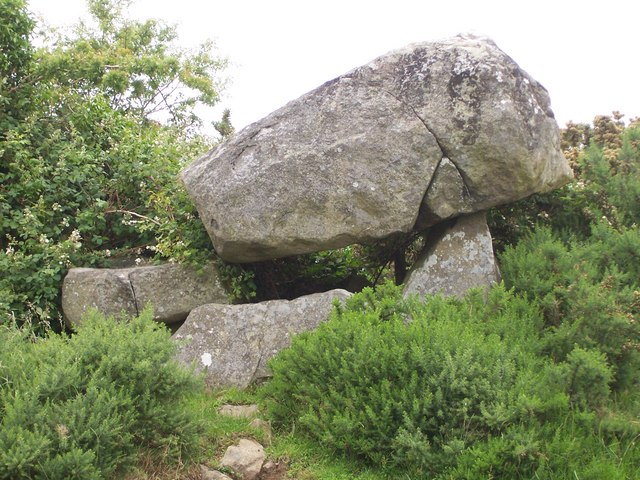 Kempe Stones Dolmen in a field boundary, Greengraves Road